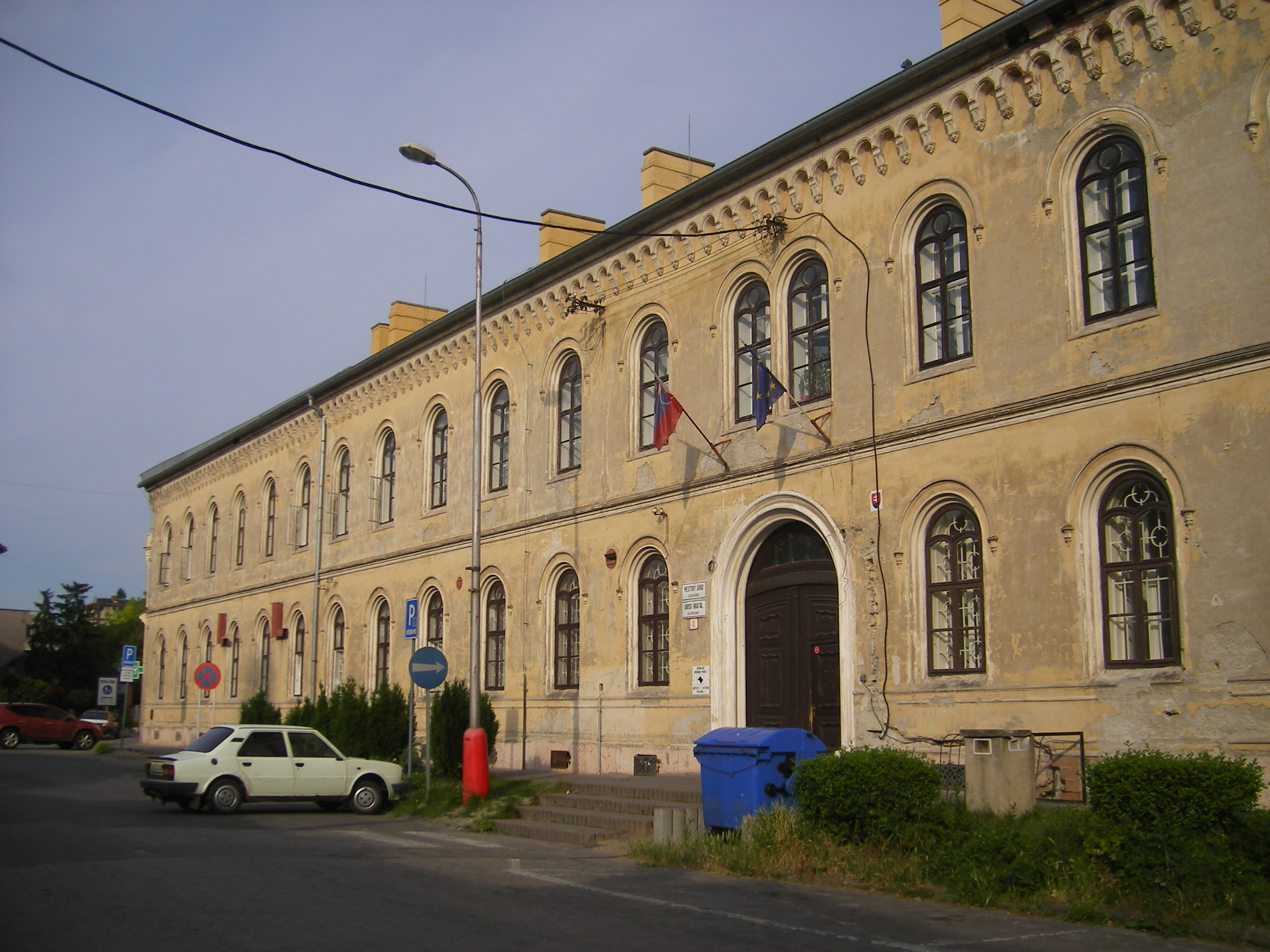 Komárno - city government offices in the building of Tiszti Pavilon